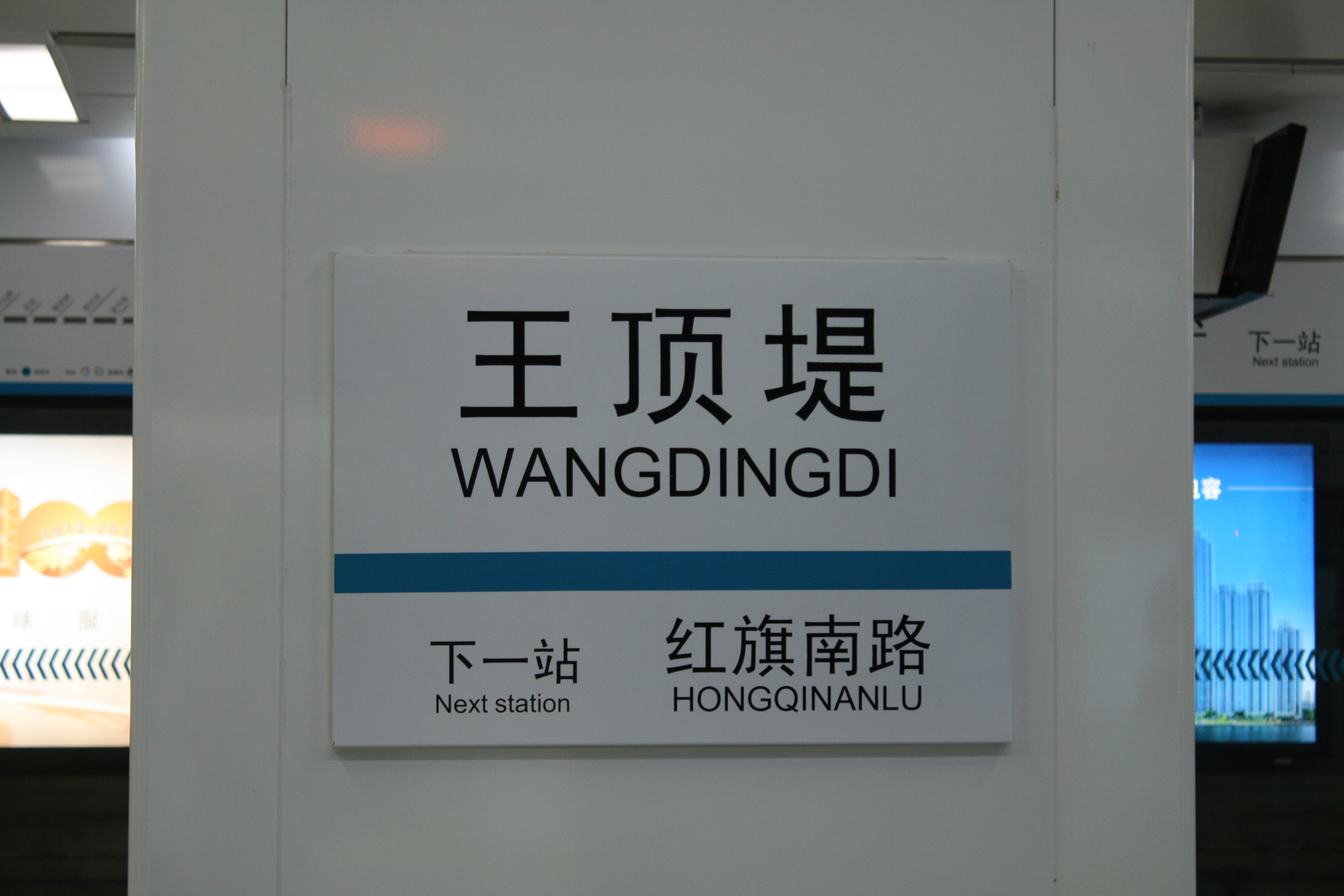 tianjin metro line 3 the WANGDINGDI Station ...0001